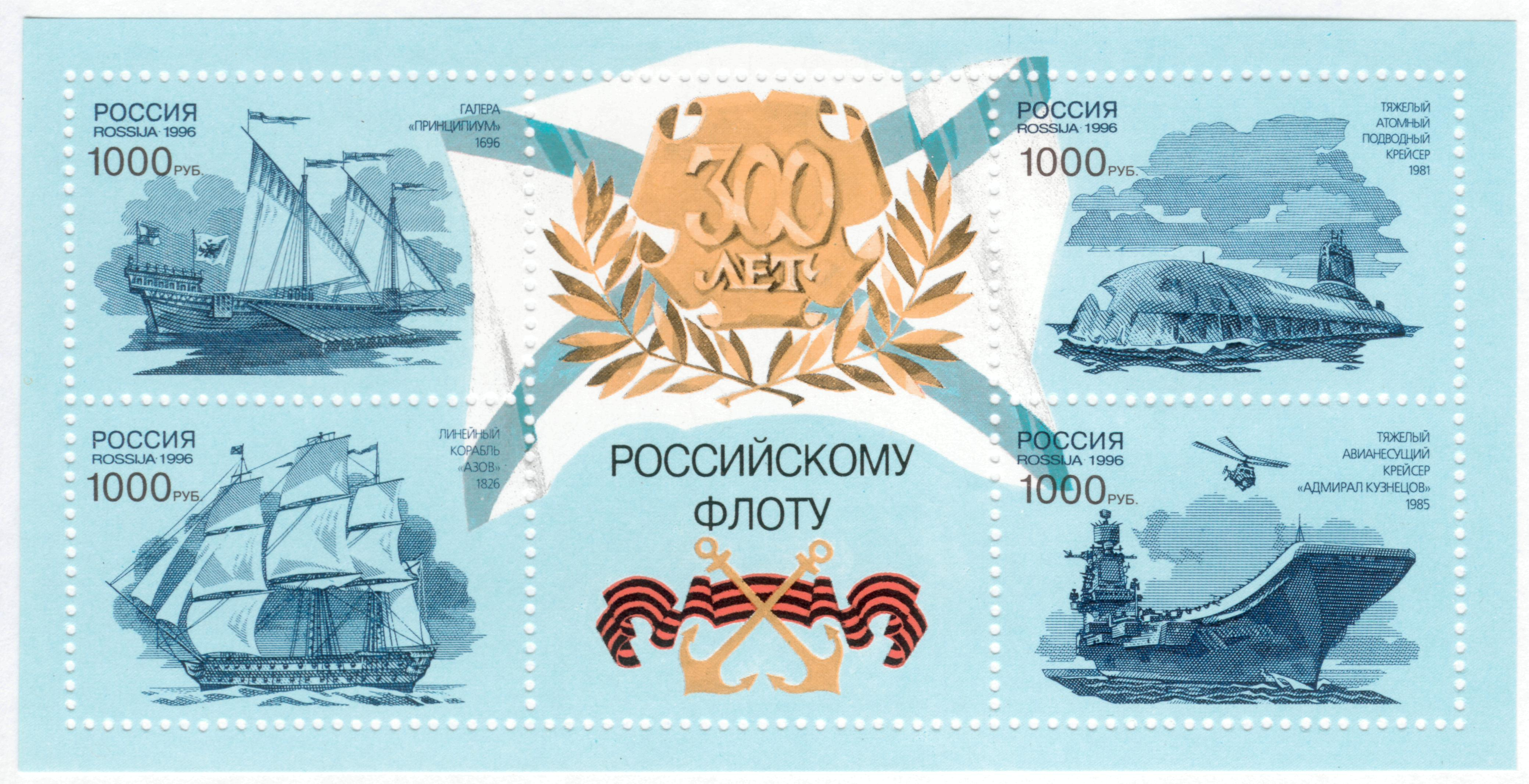 Miniature sheet of 4 Russian stamps, 1996, 300th anniversary of the Russian Navy.